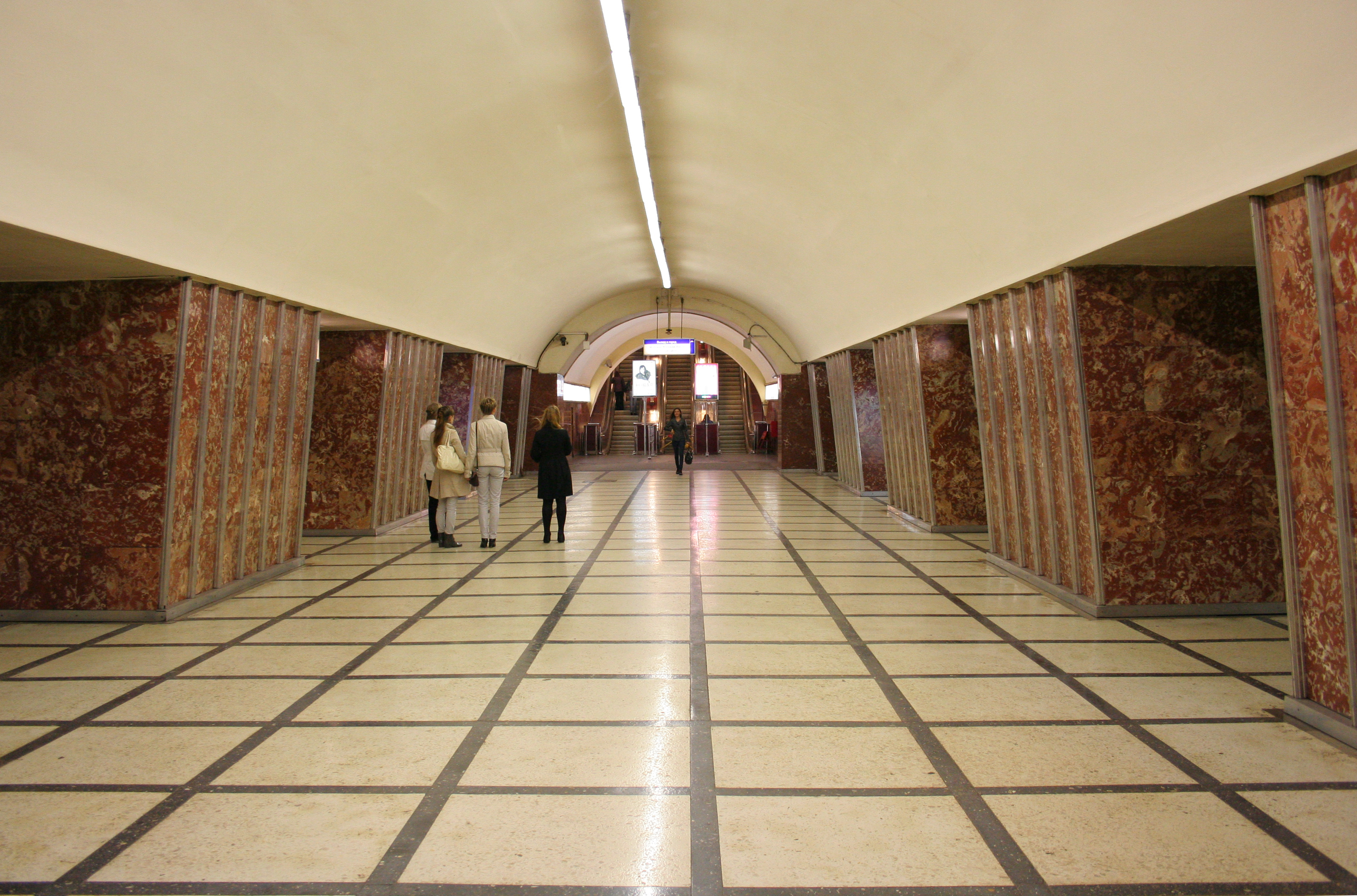 Moskovskie Vorota station of Saint Petersburg Metro